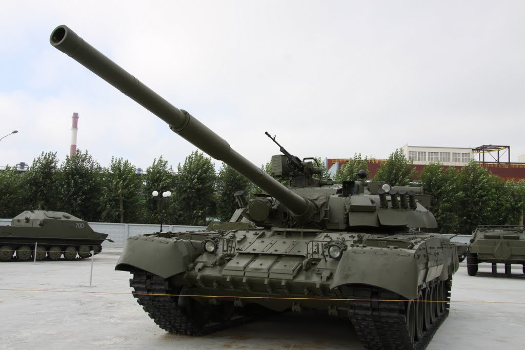 Verkhnyaya Pyshma Tank Museum 2011